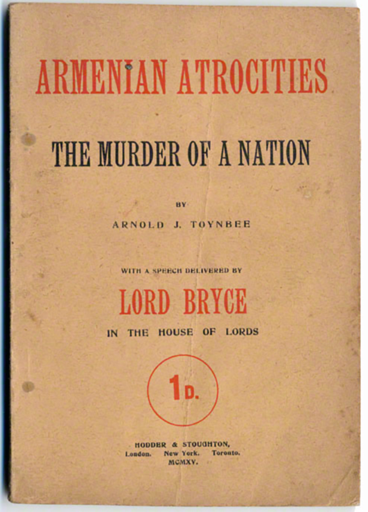 TOYNBEE, Arnold J. Armenian Atrocities: The Murder of a Nation. With a Speech Delivered by Lord Bryce in the House of Lords. New York, and Toronto: Hodder & Stoughton, 1915. cover